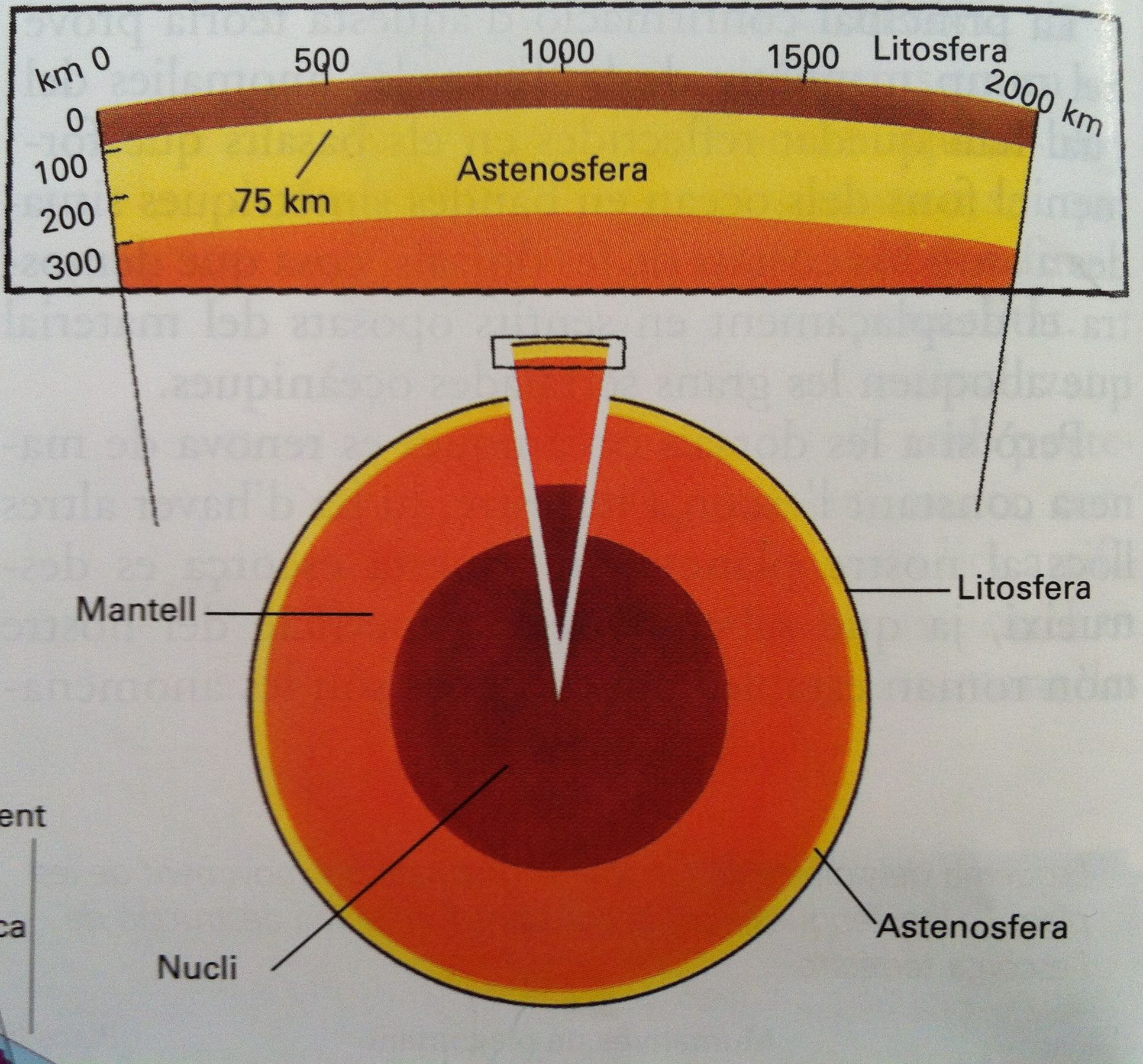 Subduction diagram